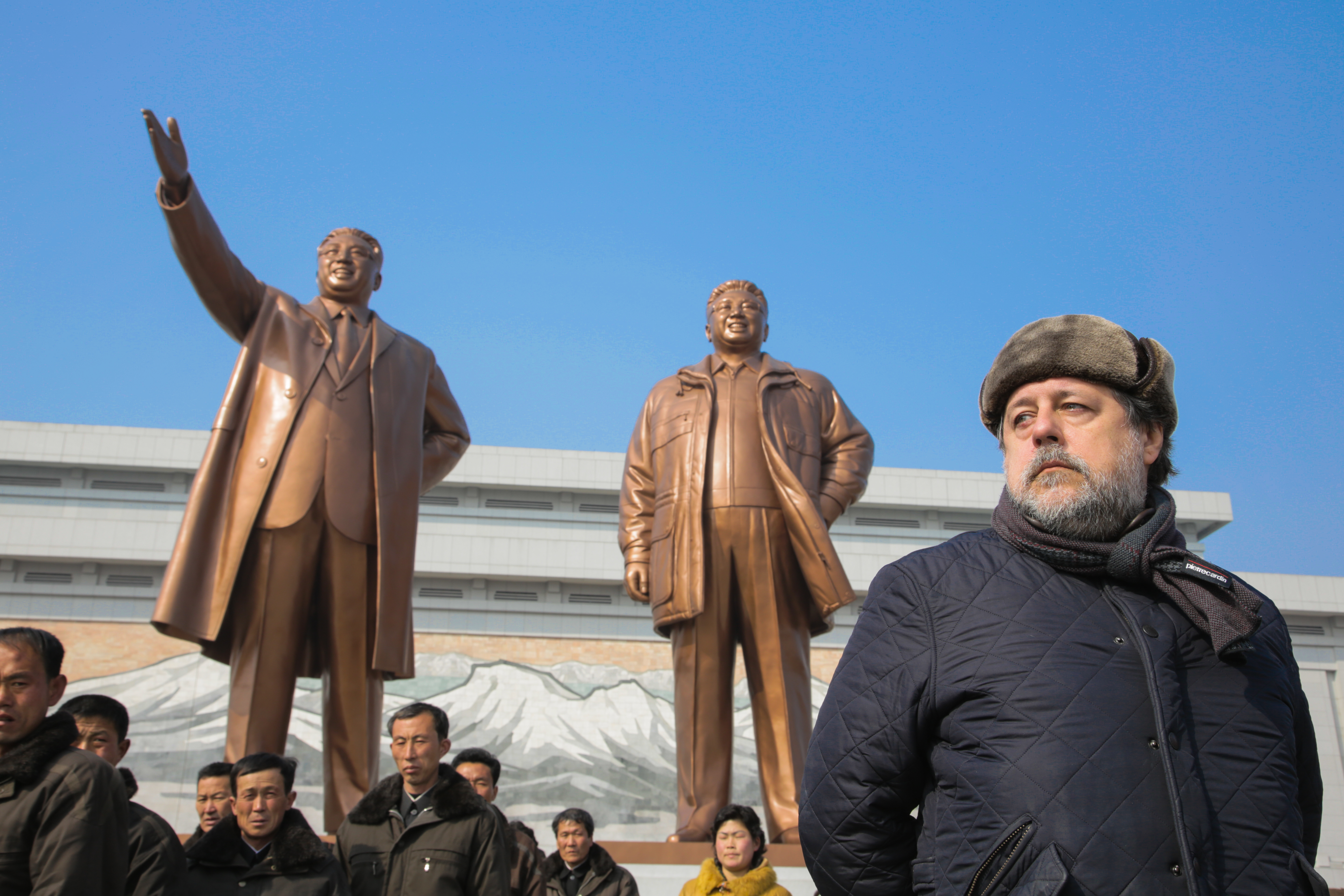 Vitaliy Mansky filming documentary "Under the Sun", 2014, Pyongyang, North Korea. On the background of the monument to Kim Il-sung and Kim Jong-Il.